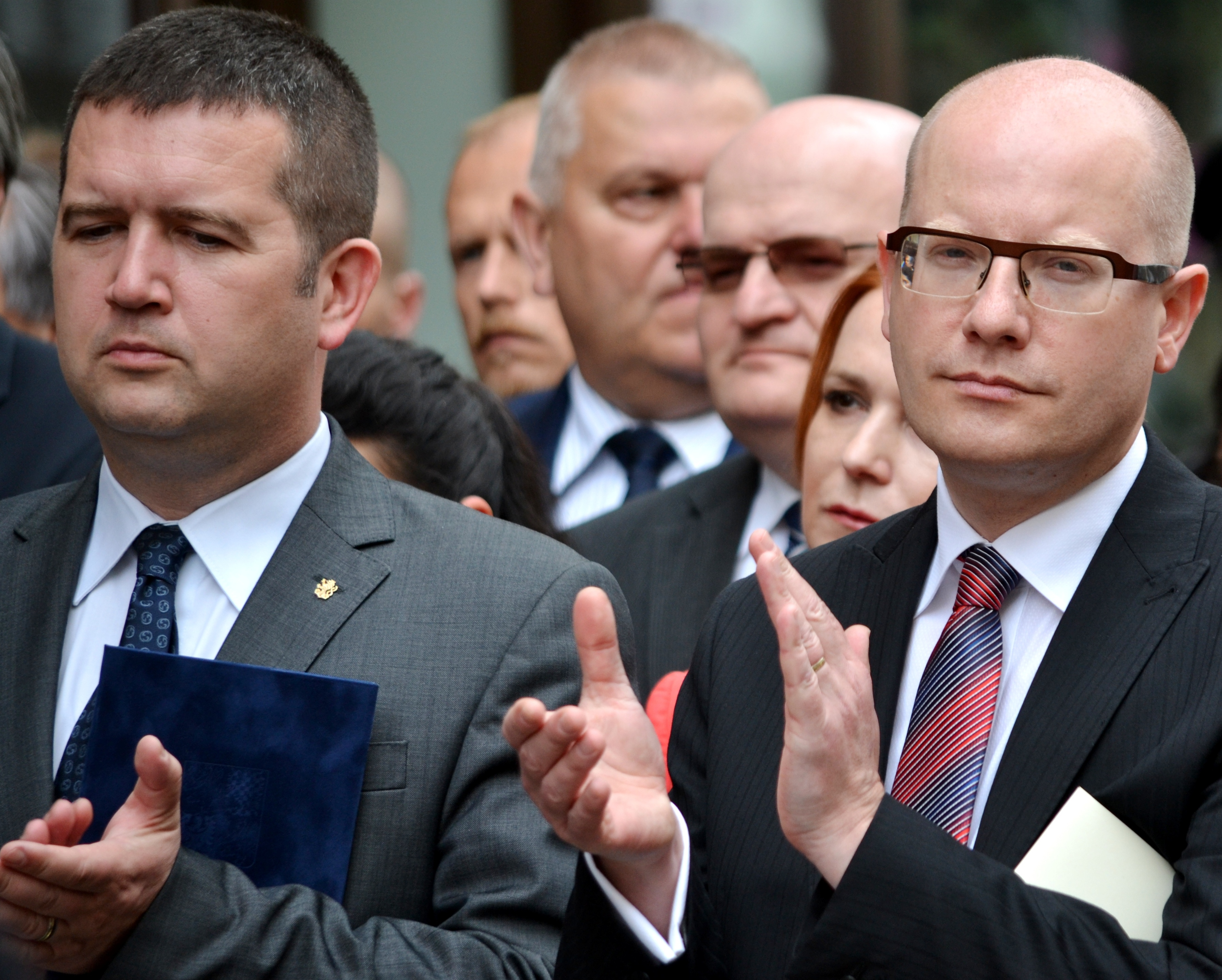 Jan Hamáček (left) and Bohuslav Sobotka (right), Czech politicians. Photo taken in front of the Czech Radio building on Vinohradská Street in Prague on May 5, 2015 during a commemorative event on the occasion of the 70th anniversary of the Prague Uprising.